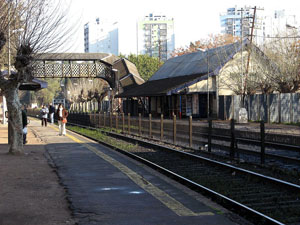 Wilde Train Station